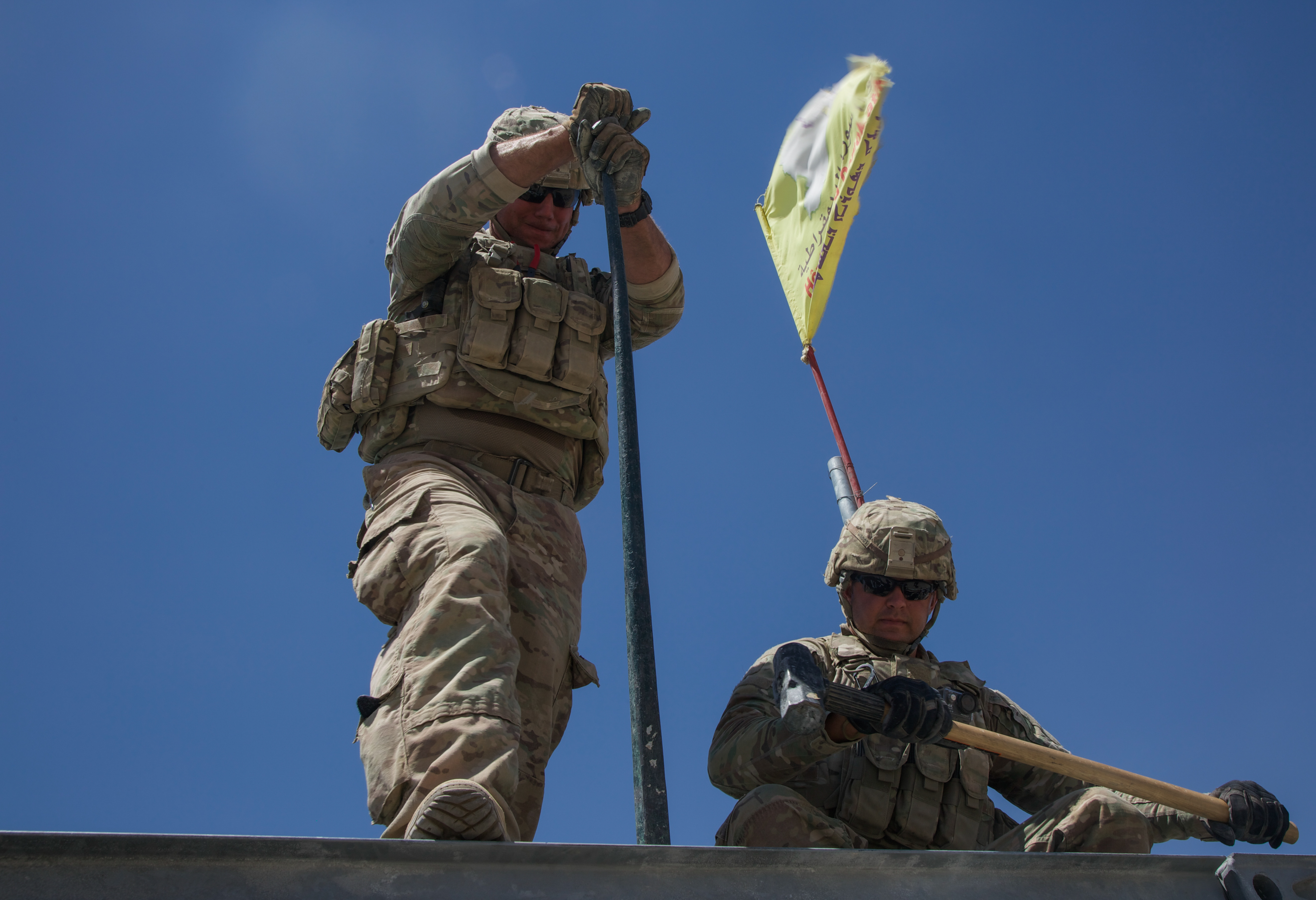 U.S. Army Engineers assigned to the 310th Engineer detachment (Bridge Team) replace a bolt on a hasty made bridge near Raqqa, Syria, July 29 2017. Persons displaced during ISIS occupation can now cross over an irrigation canal that blocked their path prior to the bridge being built.